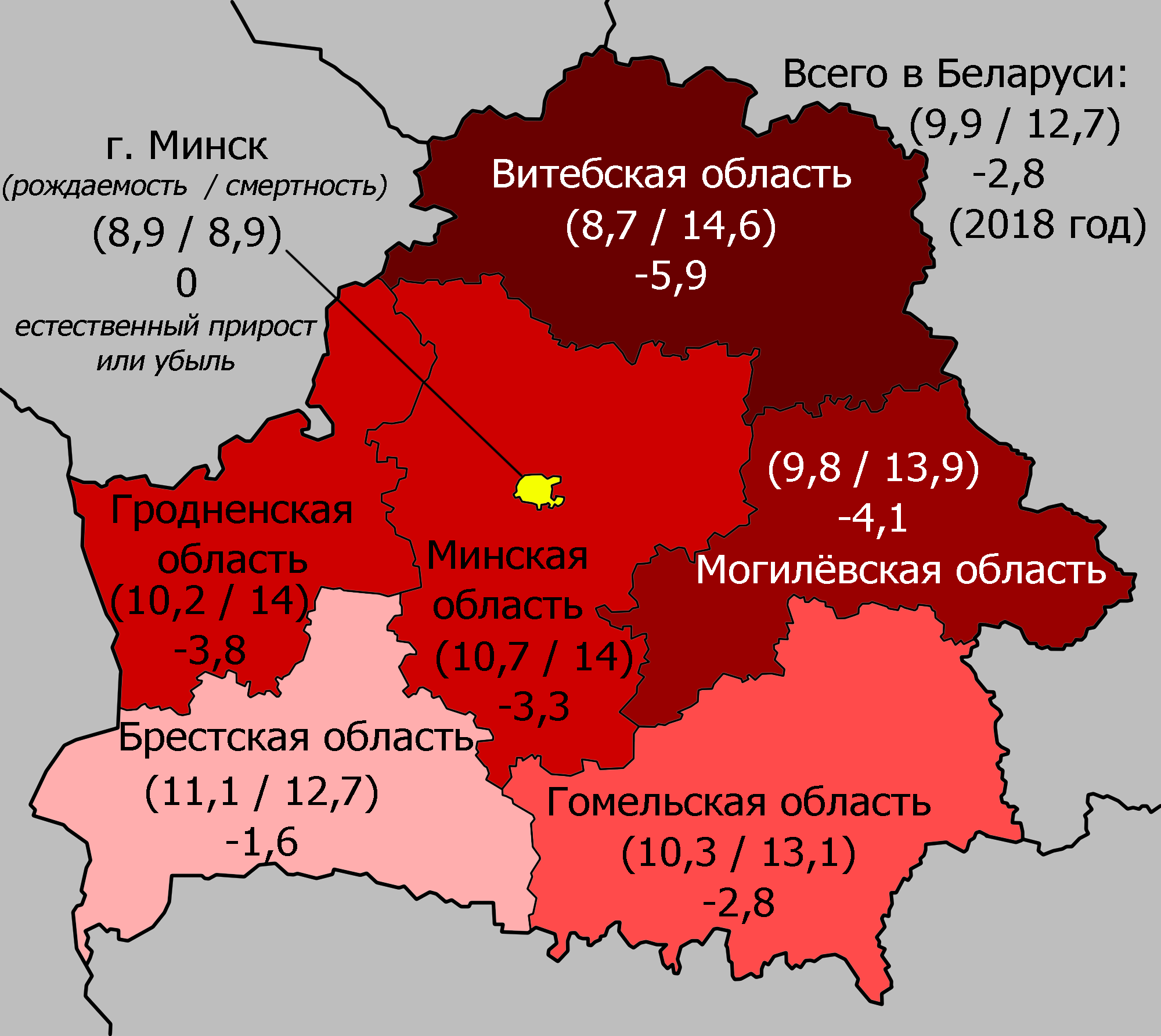 Birth rate in Belarus by regions (2018)